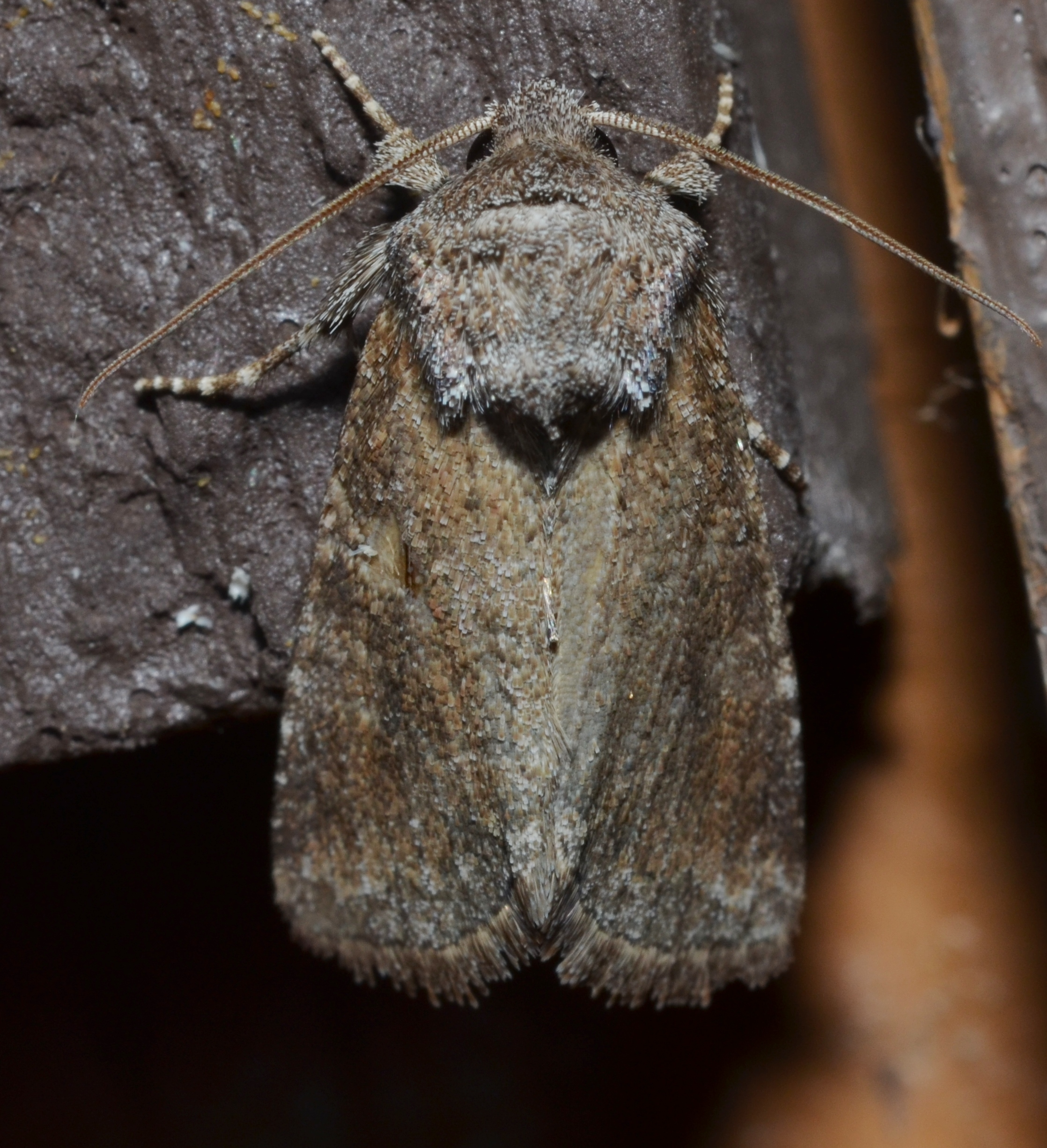 Cuivre River State Park 9/6/14 Again, Ken Childs and Paul Dennehy came to my rescue regarding the ID on this variable moth